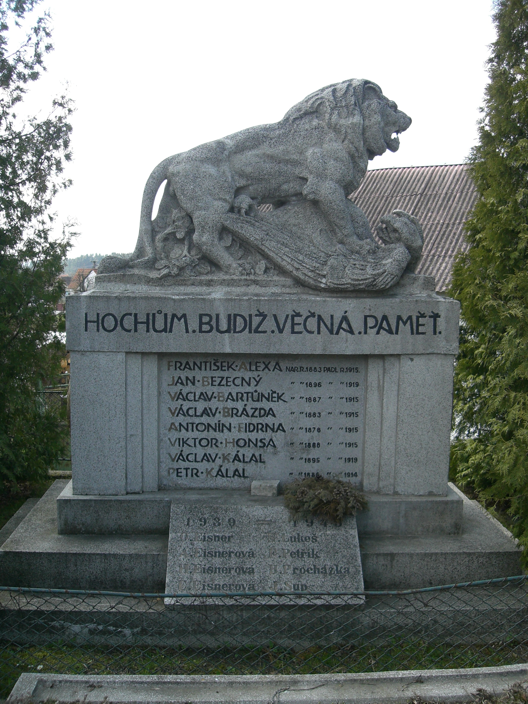 Podolí I village in the Písek district, Czech Republic. Memorial of fallen soldier by the World War I.